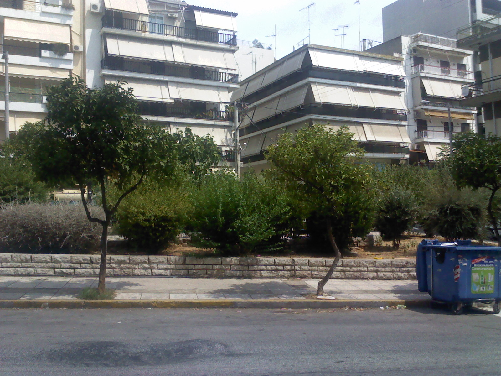 Neighborhood in Xatzikiriakeio